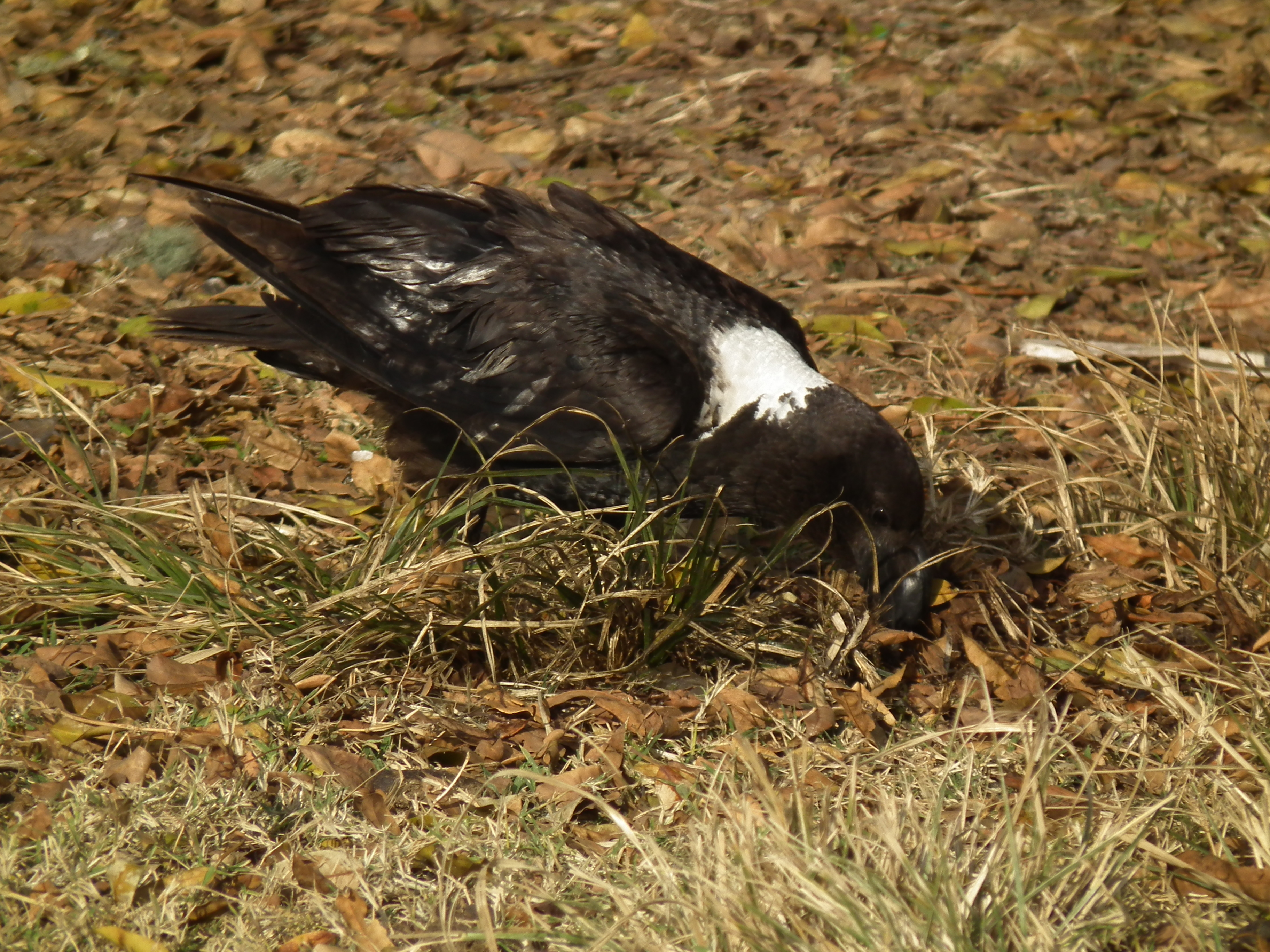 White-necked Raven (Corvus albicollis), picture taken, Northern Tanzania